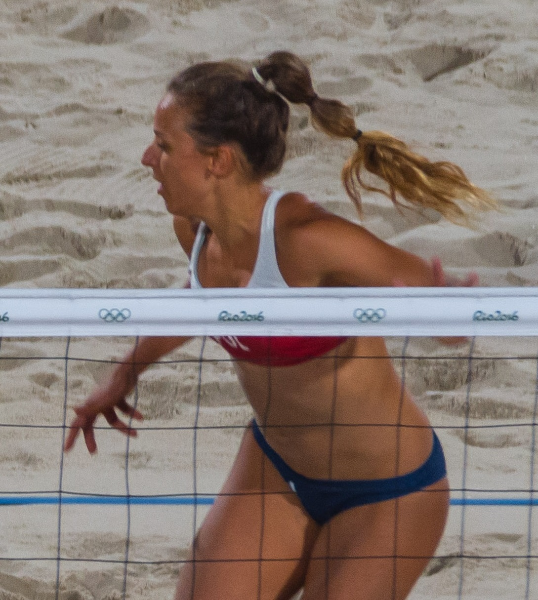 Polish beachvolleyball players Kinga Kołosińska (left) and Monika Brzostek (right) in their match against Bawden/Clancy at the Olympic Games 2016 in Rio de Janeiro